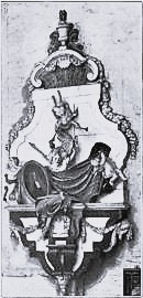 Epitaph for Adolf Brüning by Thomas Quellinus in the Marienkirche, Lübeck; as before severely damaged in 1942